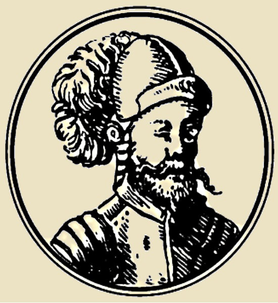 Warcislaus IV of Pomerania (1290-1326)